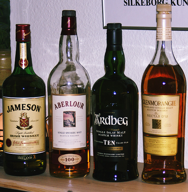 Bottles of Whisk(e)y brands from Ireland (Jameson) and Scotland (Aberlour, Ardbeg and Glenmorangie)